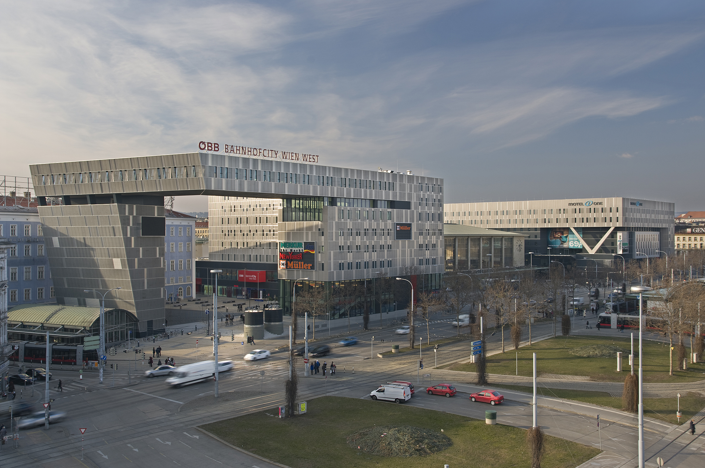 Bahnhof City Project. From left to right: Office building, ticket hall and office complex with integrated hotel "MotelOne"